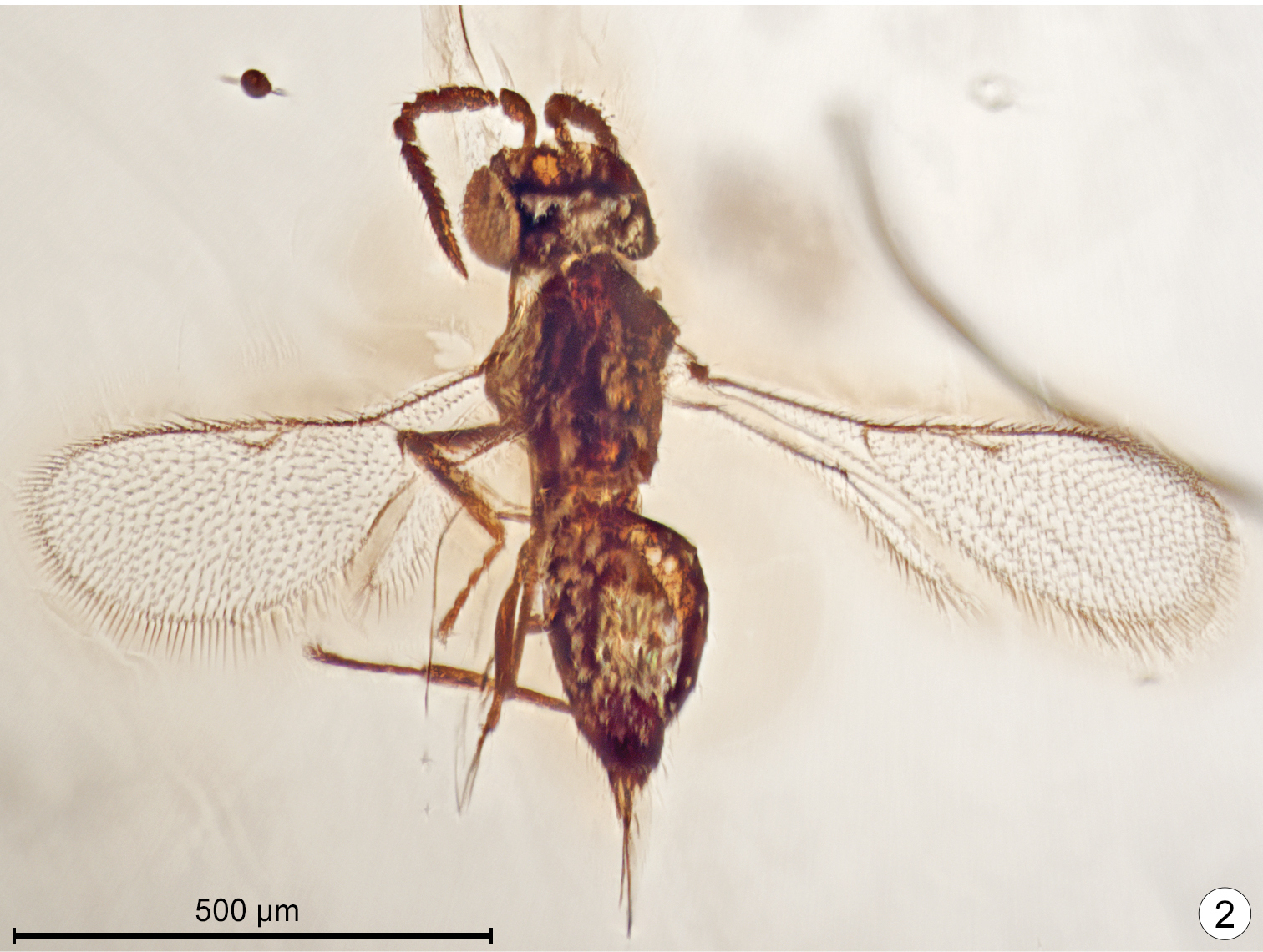 holotype female of Baeomorpha liorum, an extinct parasitic wasp